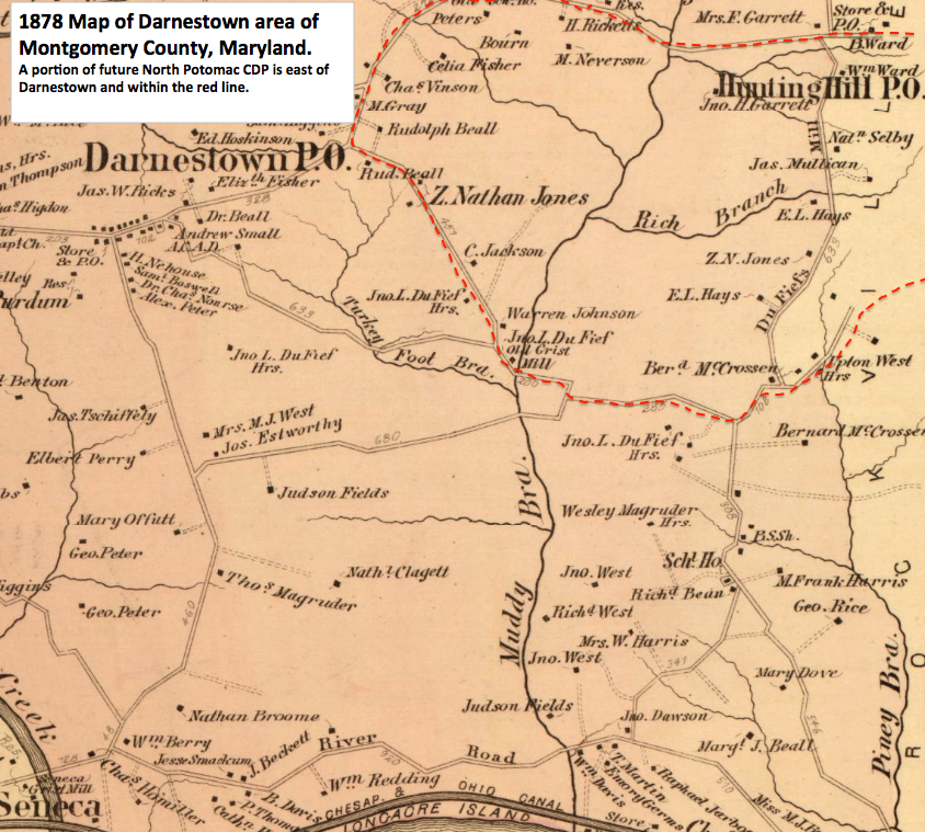 This 1878 map shows the Darnestown-Hunting Hill and areas south in Maryland. The northeast portion, inside the red dashed line, is part of today's North Potomac, CDP.